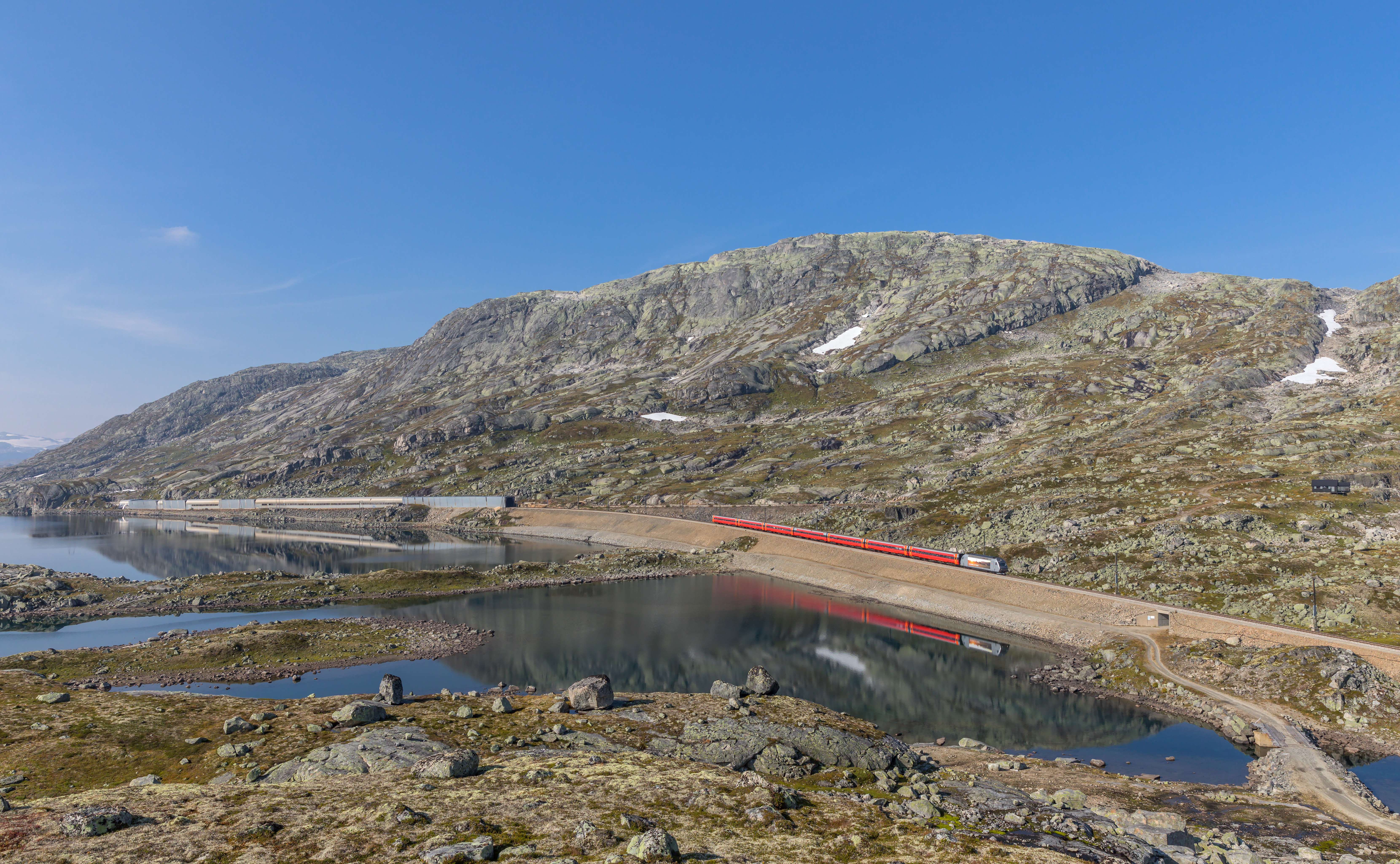 An El 18 is hauling a Regiontog to Oslo consisting of B7 coaches across the Hardangervidda. The train is about to enter the Finse tunnel and is accelerating to 160 km/h. You can see the old line branching off behind the rear end of the train. Taken near Hallingskeid, Norway.